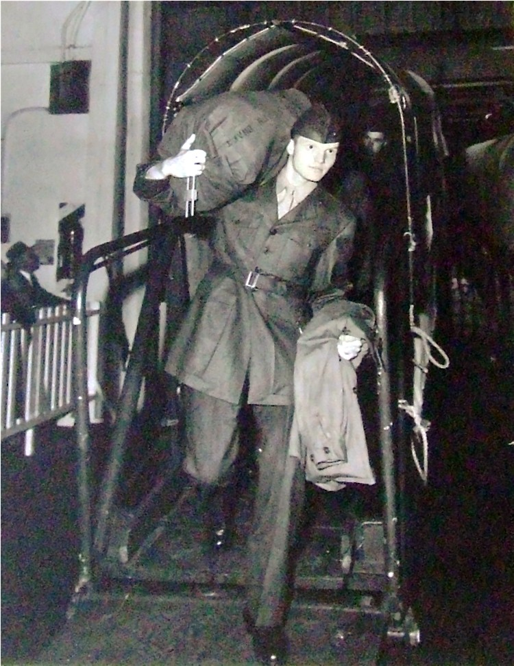 Jim Brewton arriving home from Korea